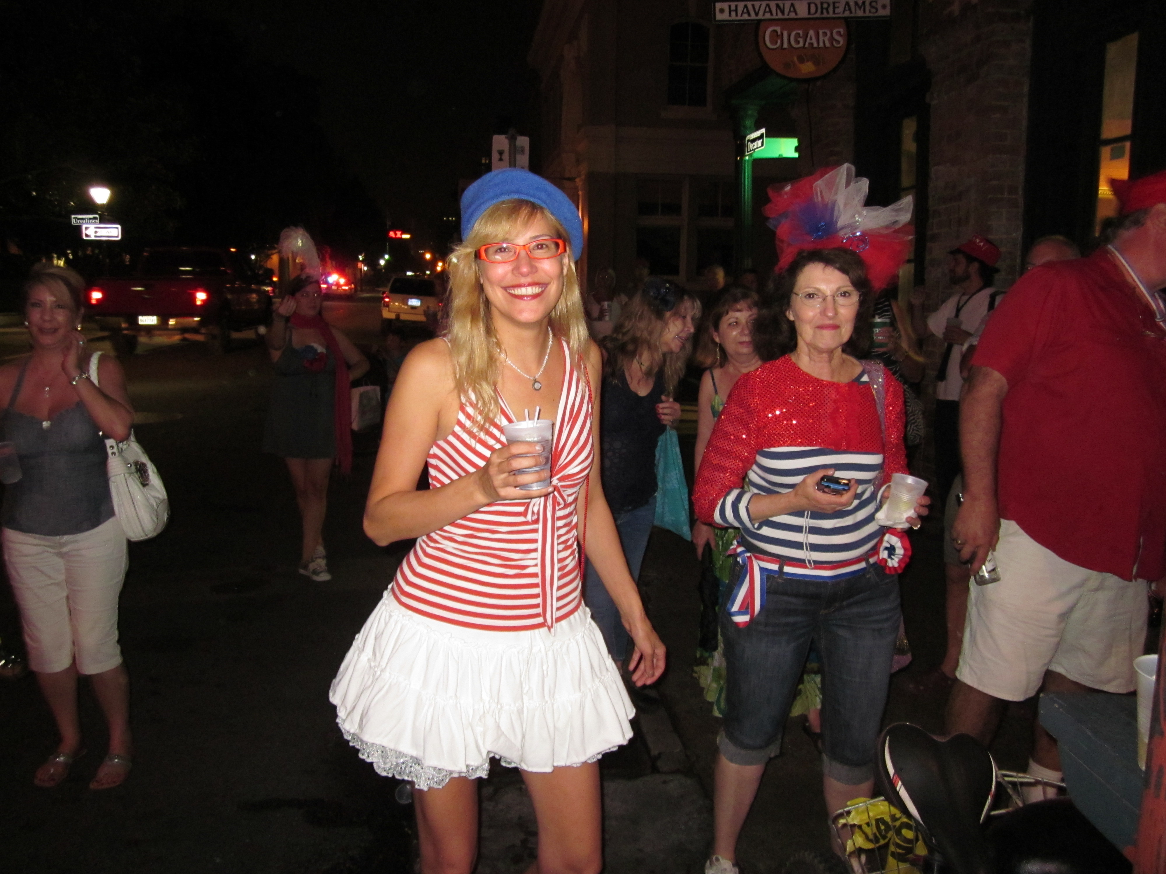 Bastille Day Tumble, French Quarter, New Orleans.